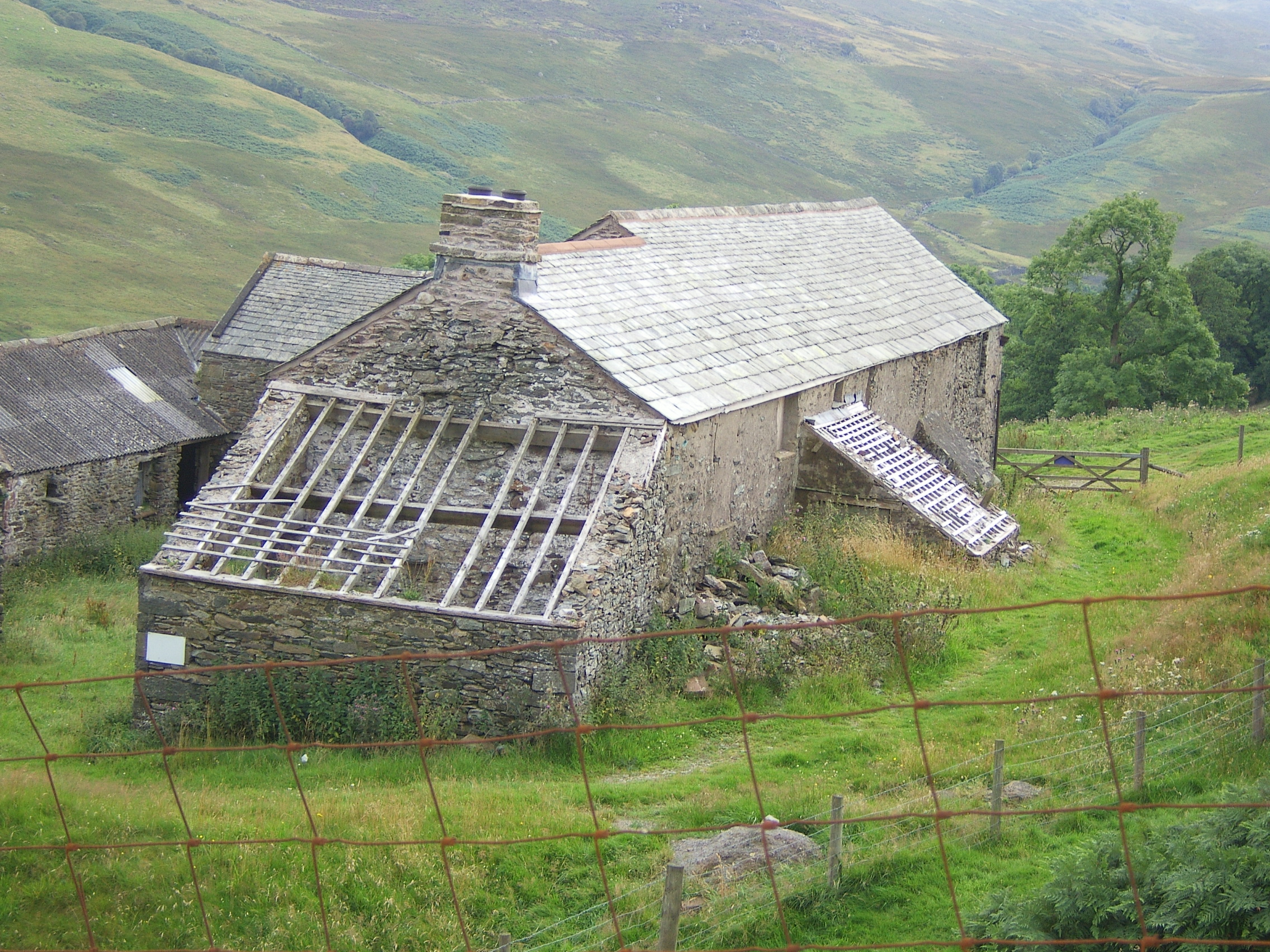 Sleddale Hall, better known as Crow Crag, the cottage from the 1987 film Withnail and I